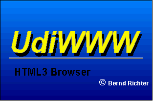 The splash screen for the UdiWWW Web Browser.